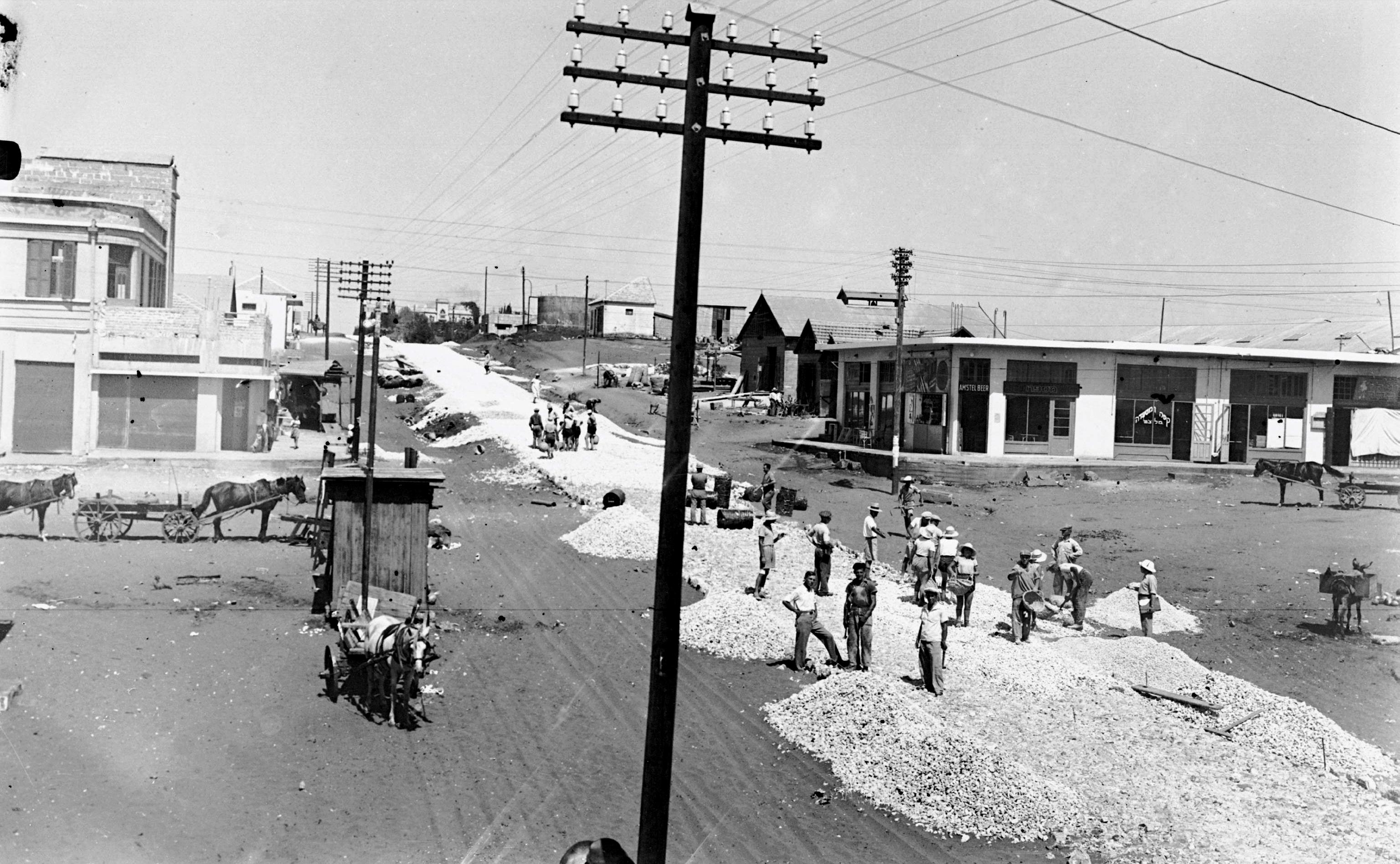 Workers constructing a road at the main street (Weizmann Street) in Kfar Saba.